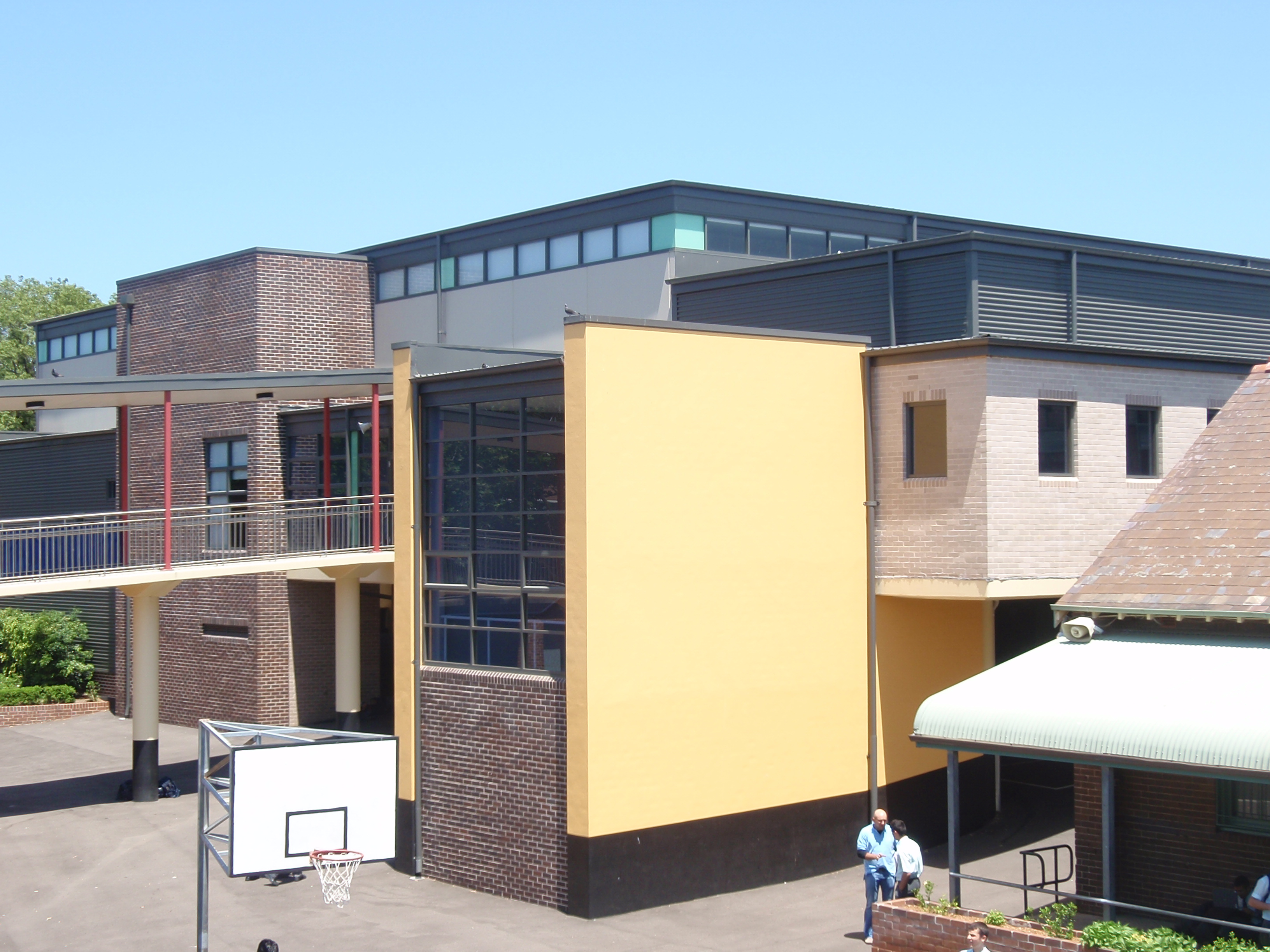 New College Hall and Science Labs